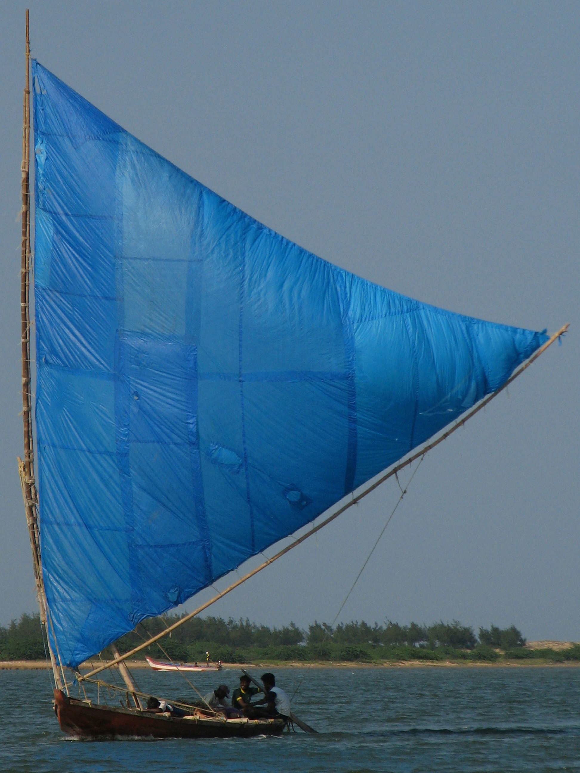 The broad, blue sail of a traditional wood sailboat on Pulicat Lake in Tamil Nadu. Original caption: The sail did worrying look like stiched together blue tarps, which, being India, is entirely possible.